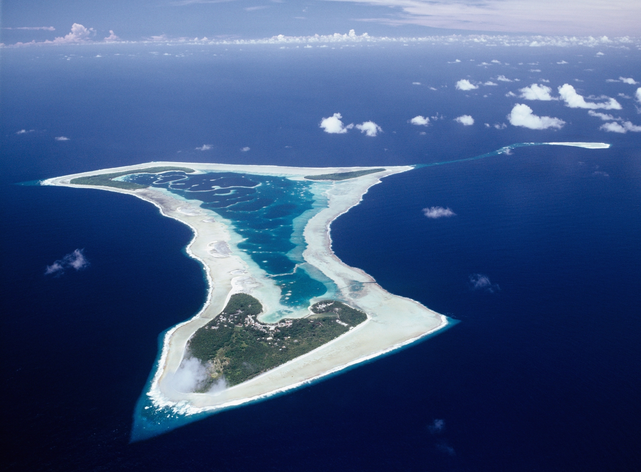 Aerial photograph of Pukapuka Atoll in the Cook Islands, photographed from Air Rarotonga's Embraer Bandeirante Aircraft that infrequently services this remote atoll.